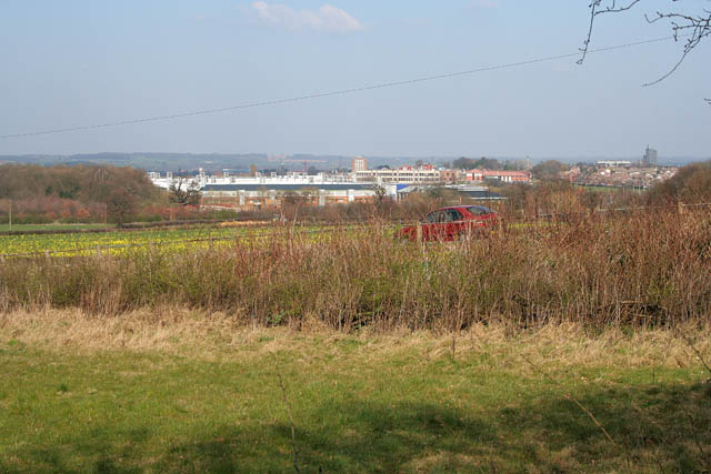 Loughborough University The building in the foreground is the Gas Research Centre and those behind are the main University buildings. 103173 can just be seen in front of Holywell Wood to the left. The car is on Snell's Nook Lane in SK5017, the road that leads from Nanpantan to the A512.